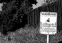 A Neighborhood Watch notice sign in monochrome black and white.